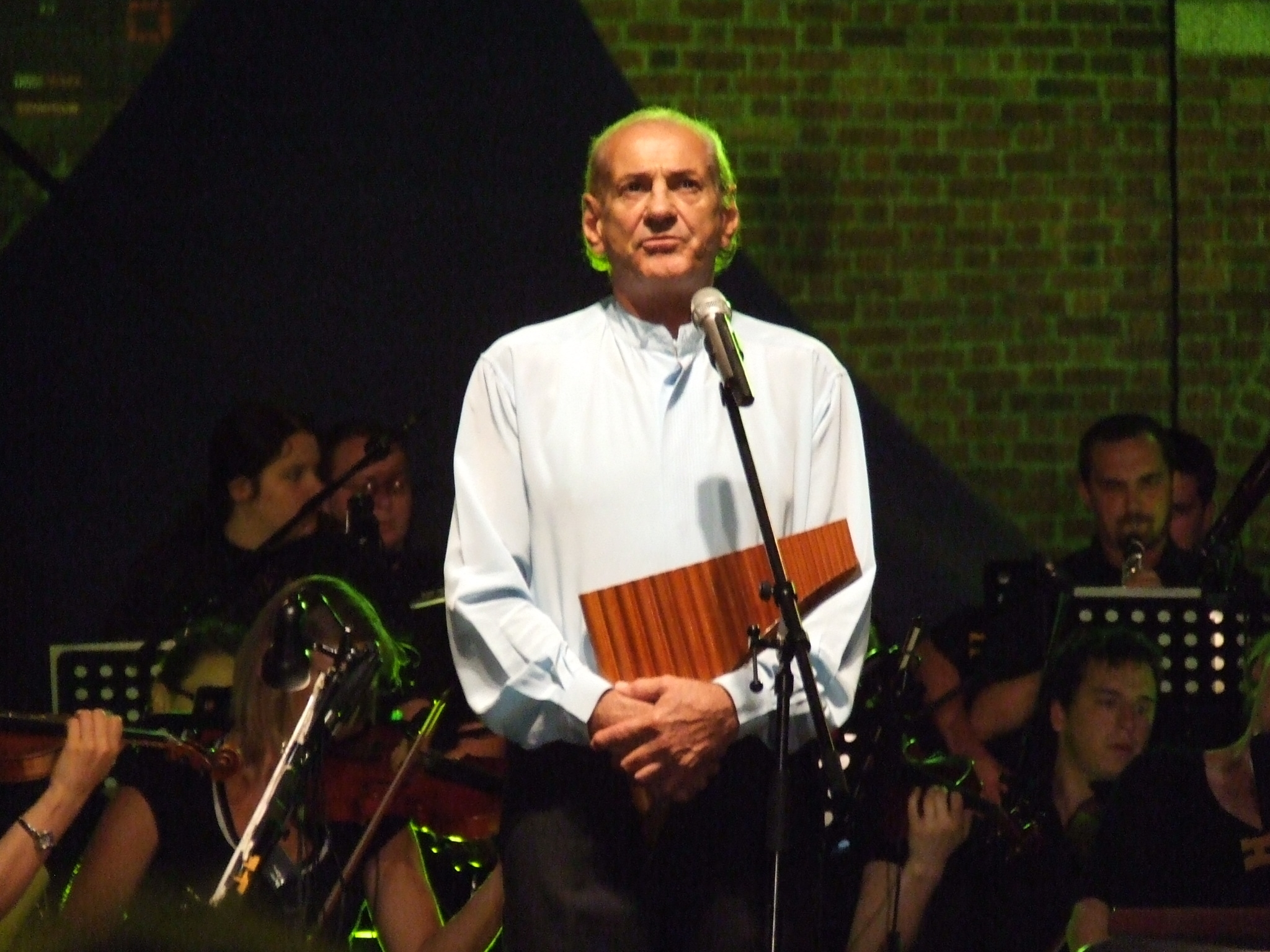 Gheorghe Zamfir, 10-th Crossroad Festival, Main Squere in Cracow, 2008